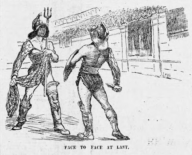 Cartoon by JM Staniforth. The match between the Wales and Scotland rugby union teams, here depicted as gladiators, in the Home Nations Championship held at Inverleith finally takes place after four postponements due to bad weather.